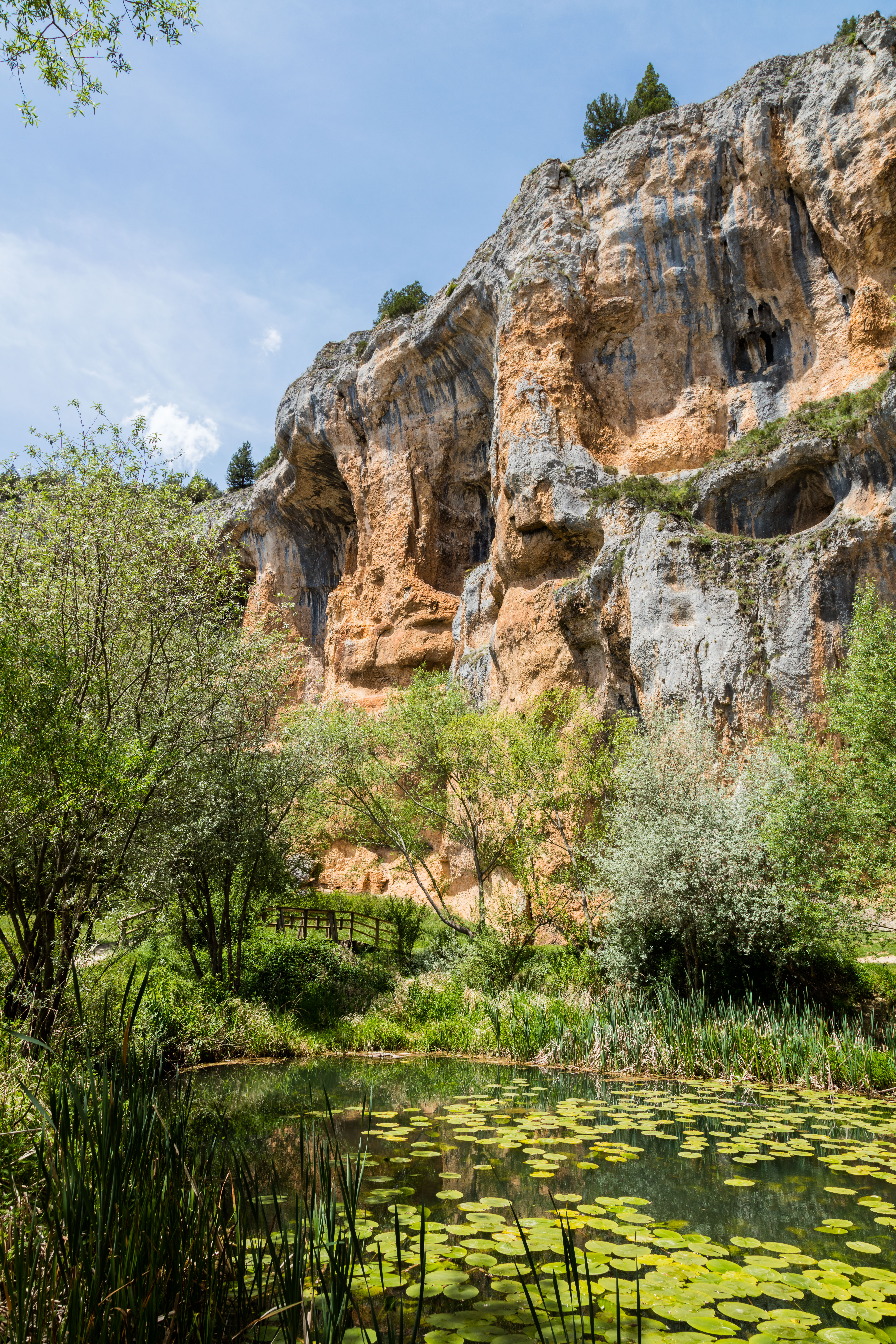 Canyon of the Lobos River Natural Park, Soria, Spain